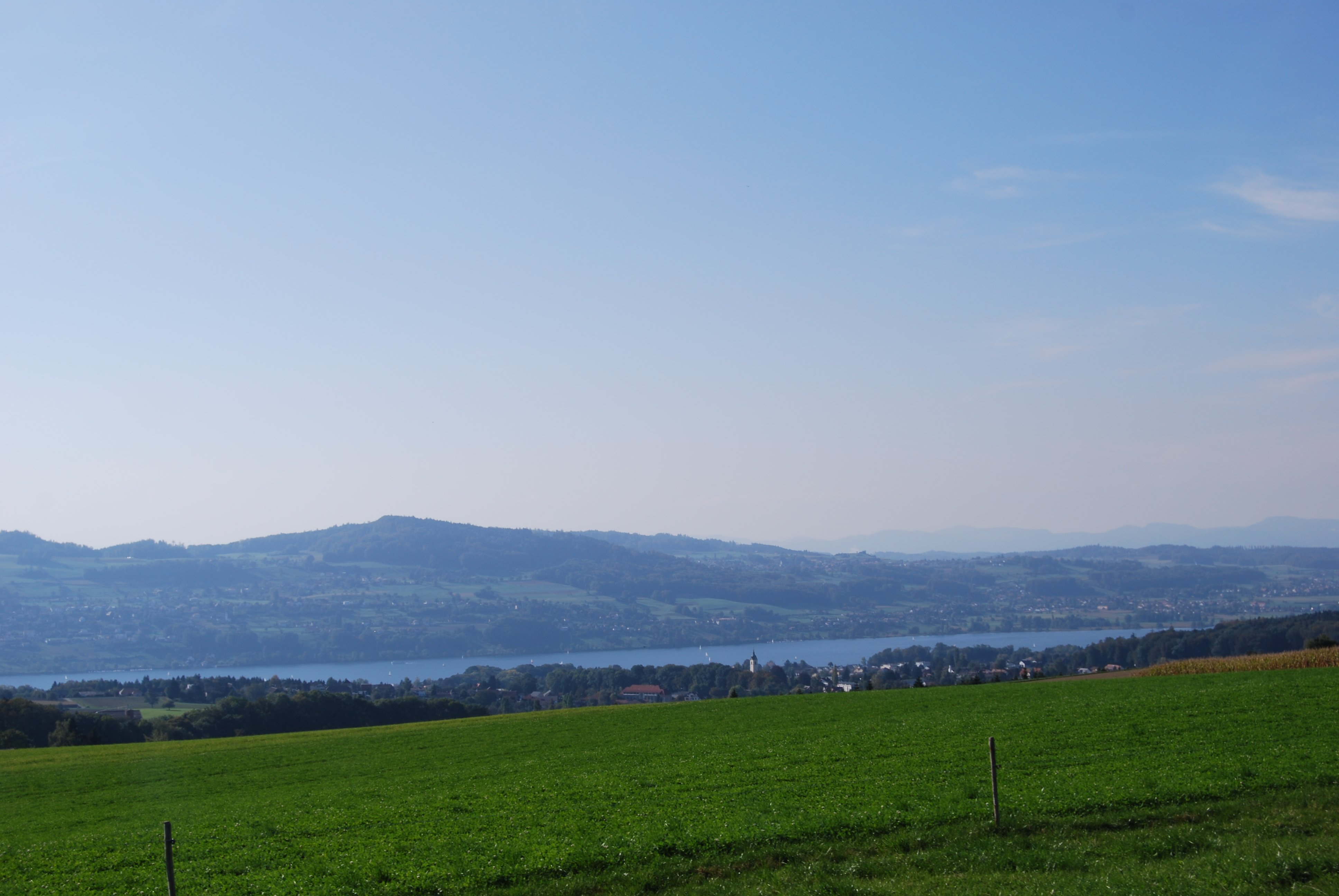 View from Lindenberg to Lake Hallwil and Meisterschwanden, canton of Aargau, Switzerland